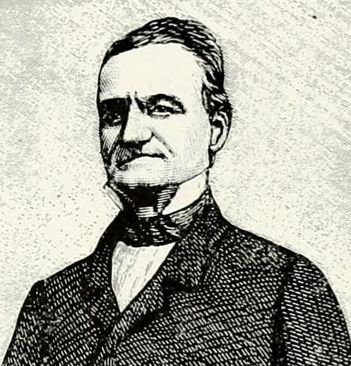 Samuel Birdsall, Congressman from New York